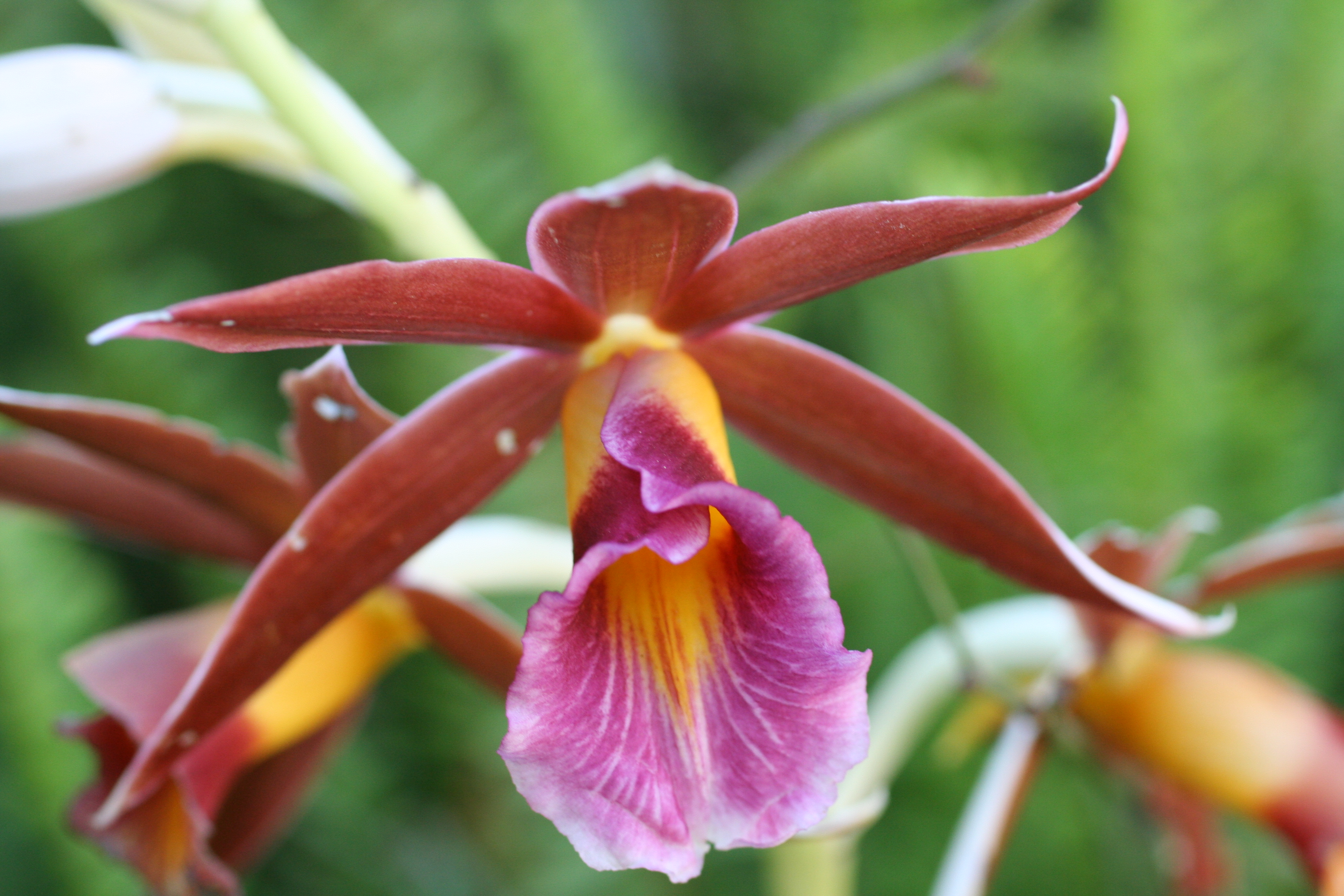 Phaius tankervilleae (Hybrid?) is a kind of orchids named after Lady Emma Tankerville, who was married to Charles Bennet, 4th Earl of Tankerville